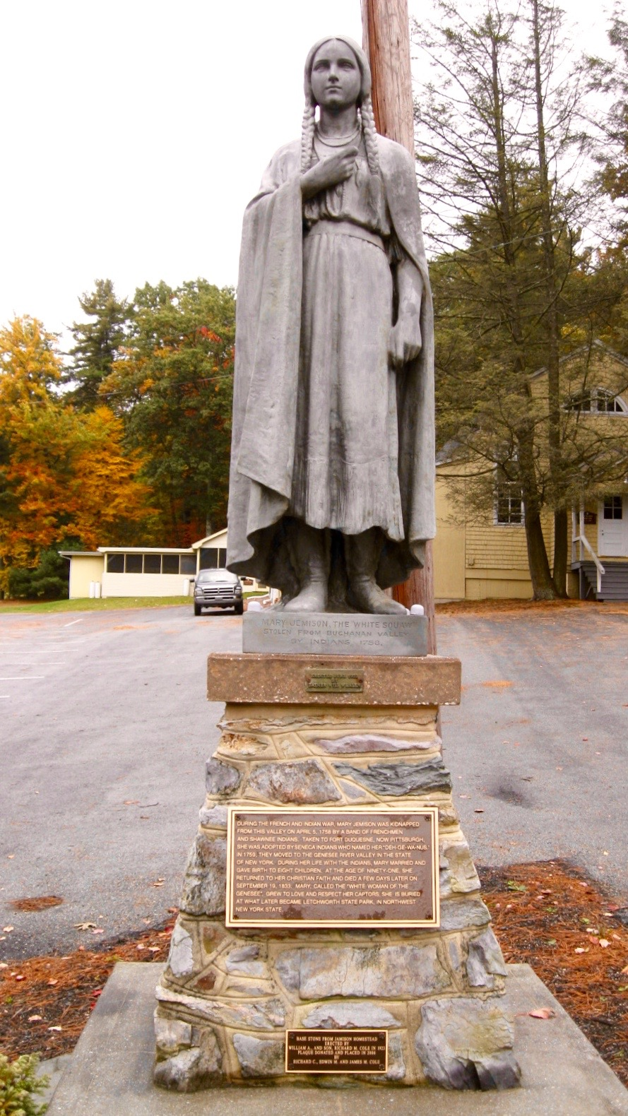 St. Ignatius Loyola Catholic Church in Adams County, Pennsylvania